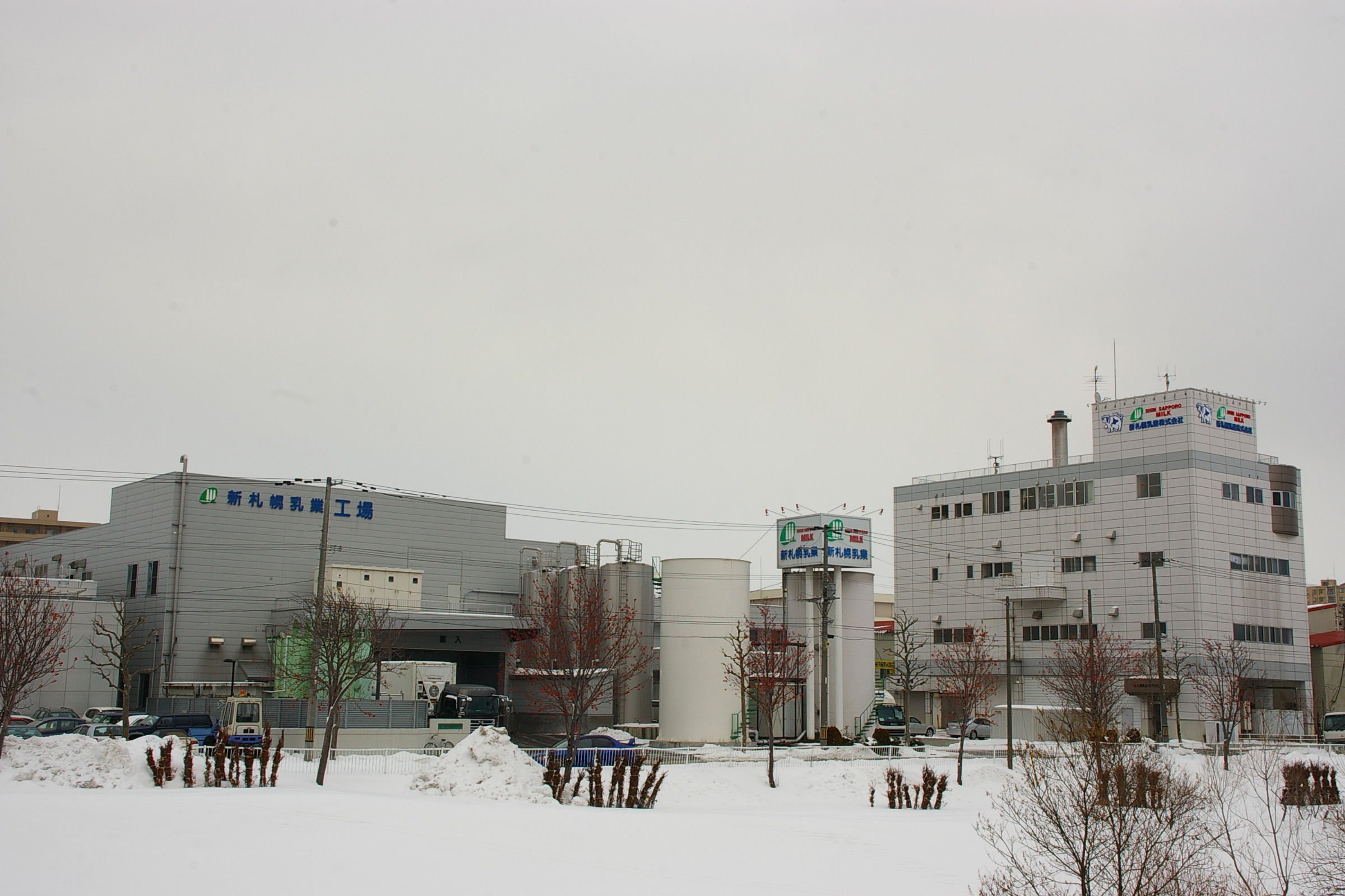 Shin-Sapporo milk.